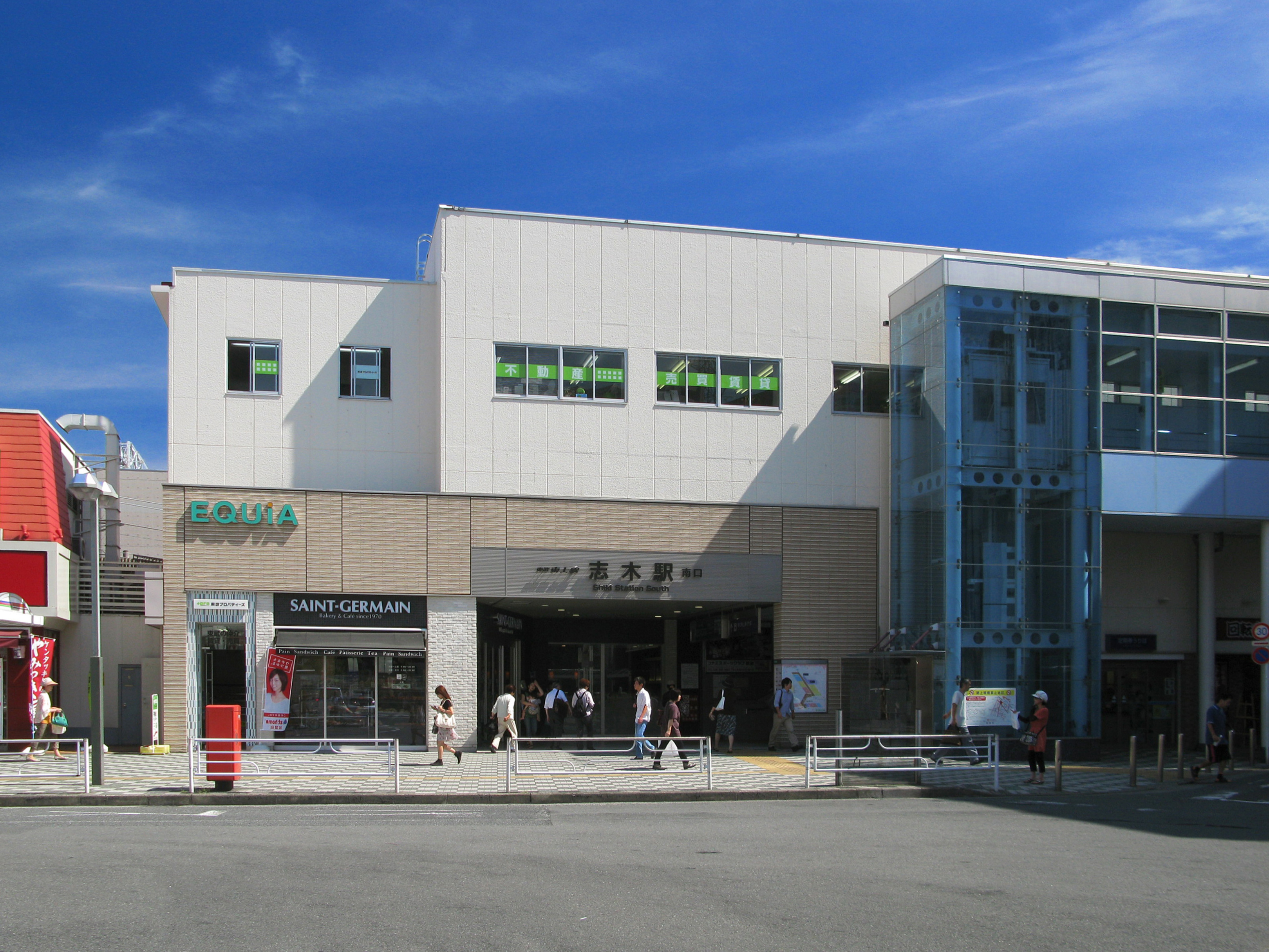 South entrance of Shiki Station on the Tobu Tojo Line in Saitama Prefecture, Japan